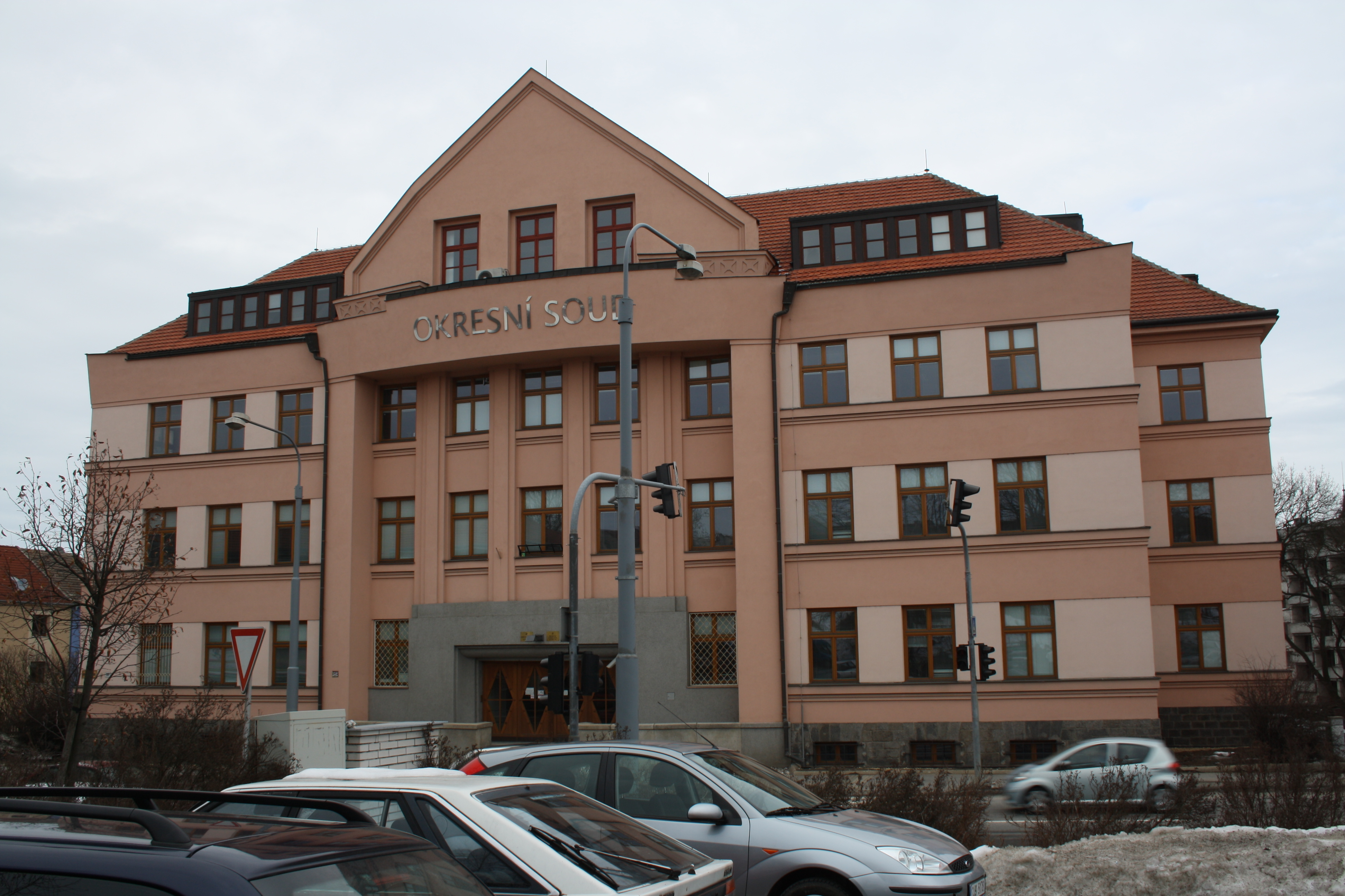 District court in Třebíč, Czech Republic.